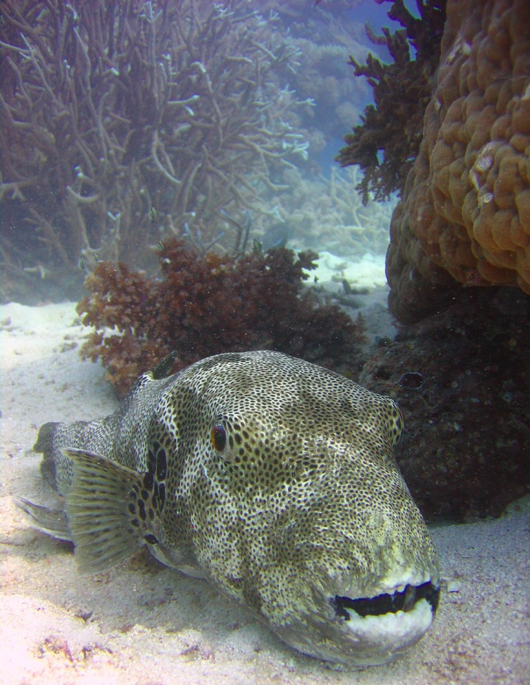 Portrait of a Starry Puffer (Arothron stellatus). Pixie Garden, Ribbon Reefs, Great Barrier Reef219659837